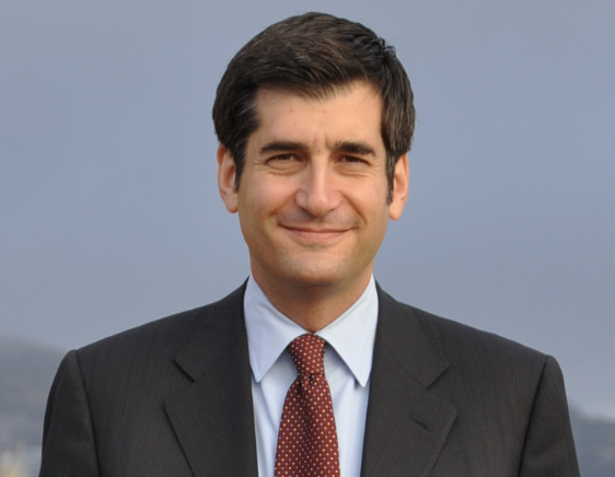 David Onek, candidate for District Attorney of San Francisco